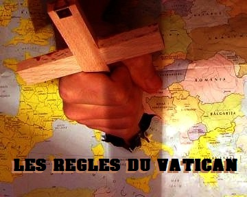 THE VATICAN RULES